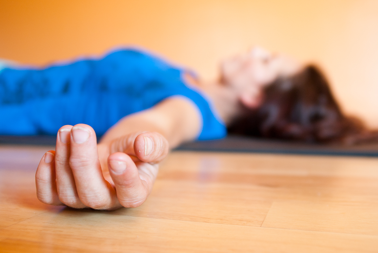 Find me also on: BLOG | FACEBOOK | TWITTER | GOOGLE+